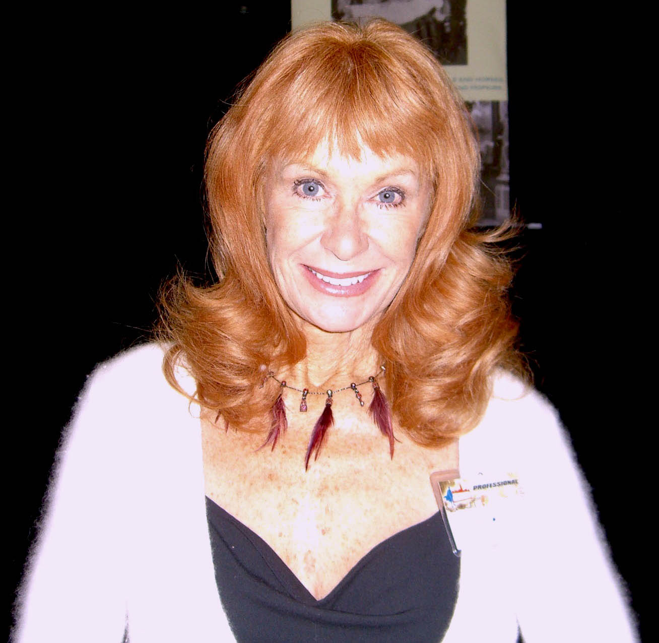 Actress/comedienne Carol Cleveland at the Big Apple Convention in Manhattan. Photographed by Luigi Novi. This photo may only be used if the photographer is properly credited. (See Licensing information below.)